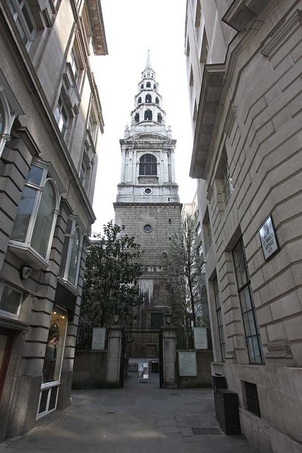 St Bride, Fleet Street, London EC4